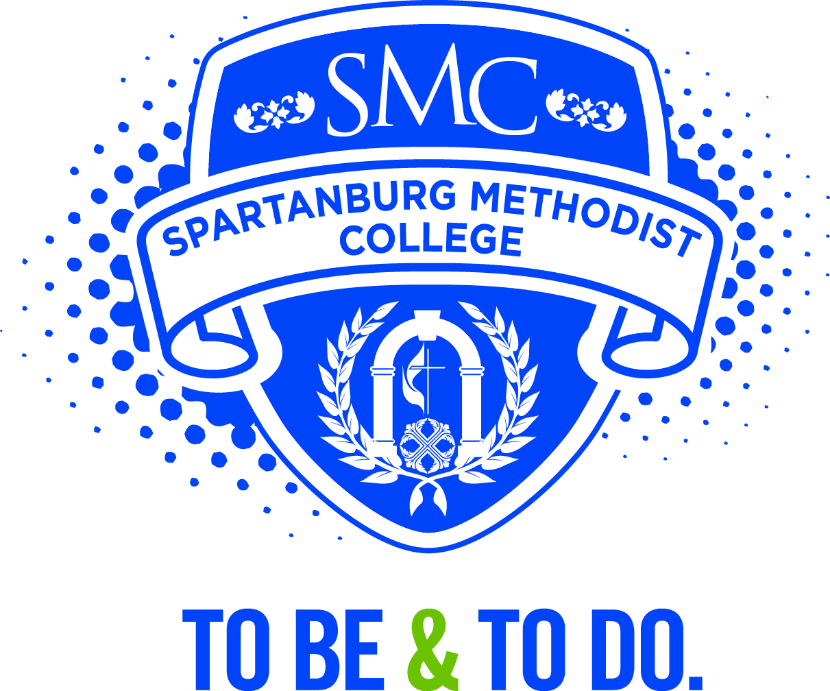 New SMC Marketing Logo